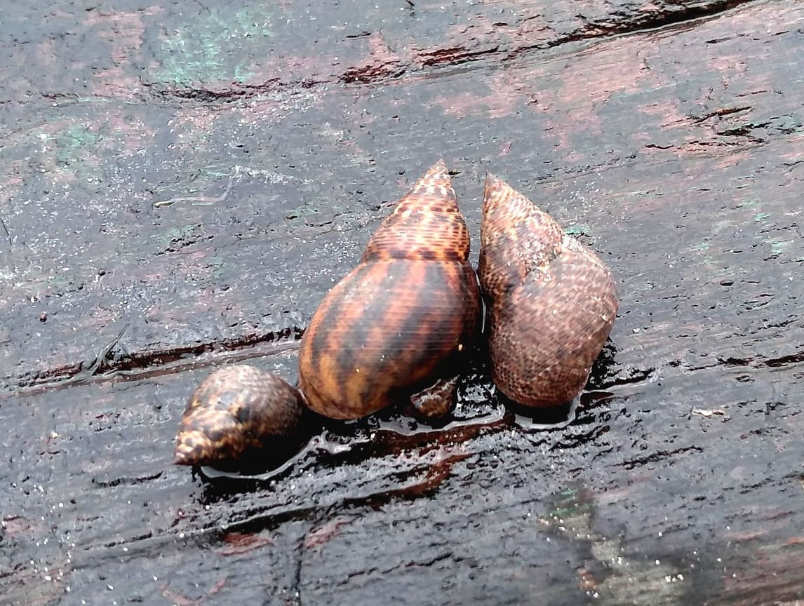 Individuals of the coastal and estuarine mollusc Littoraria angulifera (Lamarck, 1822)[1] attached to a floating board at the mouth of the "rio do peixe", at Perequê beach, municipality of Guarujá, São Paulo, southeastern region of Brazil; Atlantic Ocean. Photo taken on 1/20/2020.